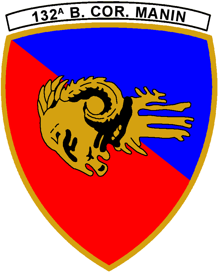 Coat of Arms of the Italian Army Armoured Brigade Manin between 1975 and 1986